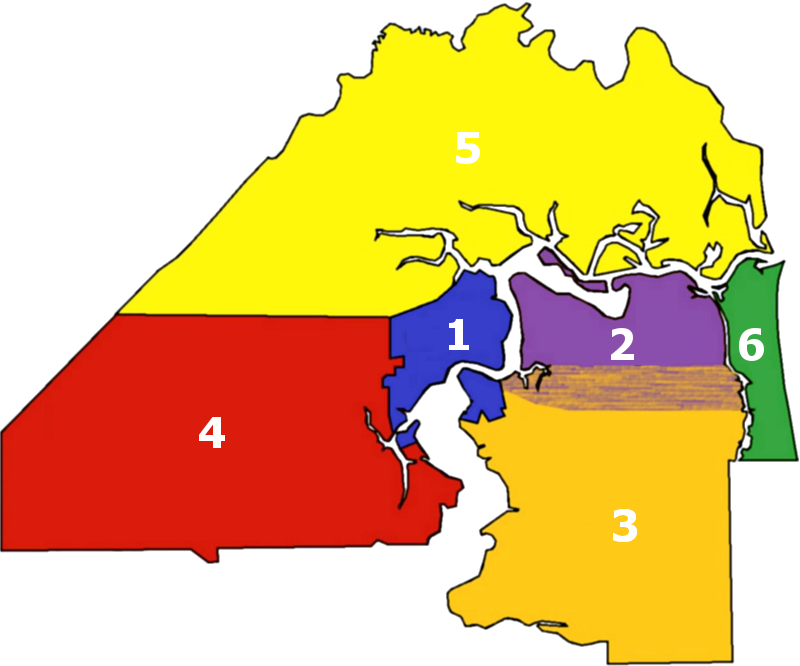 Divisions within the city of Jacksonville 1. Urban core – city limits before Consolidation 3. Southside 4. Westside 5. Northside 6. Beaches